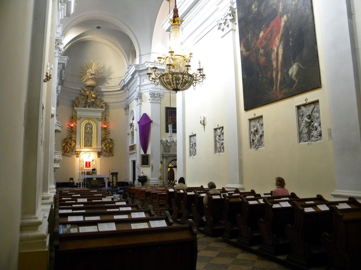 Saint Trinity Church in Warsaw, Solec area. Interior.